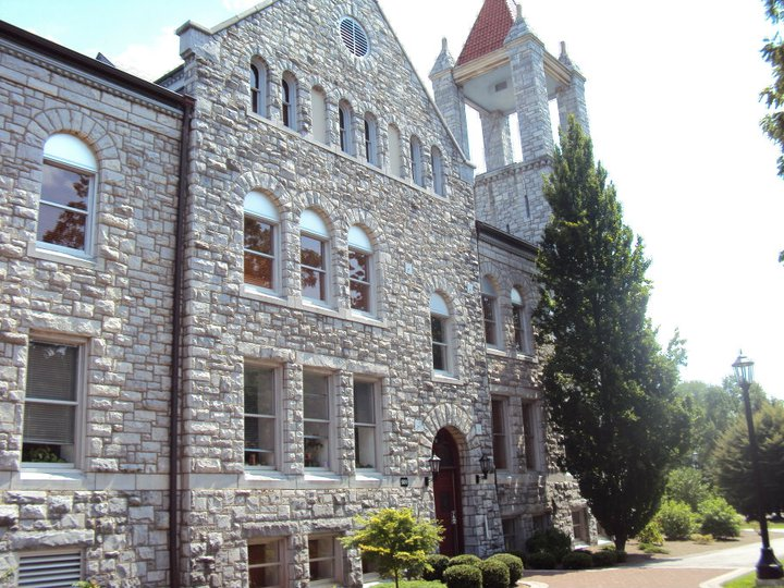 Bomberger Hall at Ursinus College